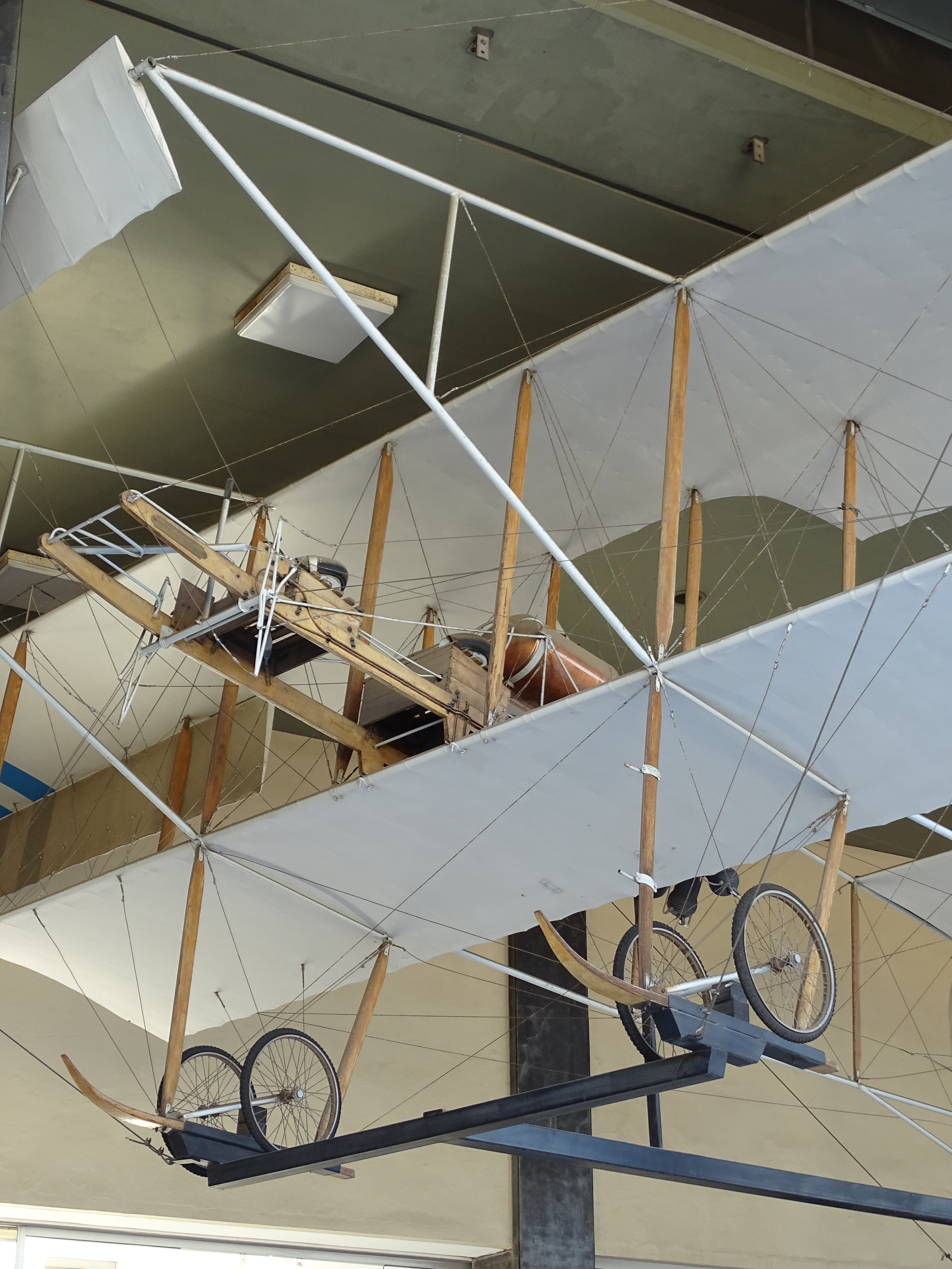 Replica of the Farman MF.7 Daedalus, the first warplane in Greece.